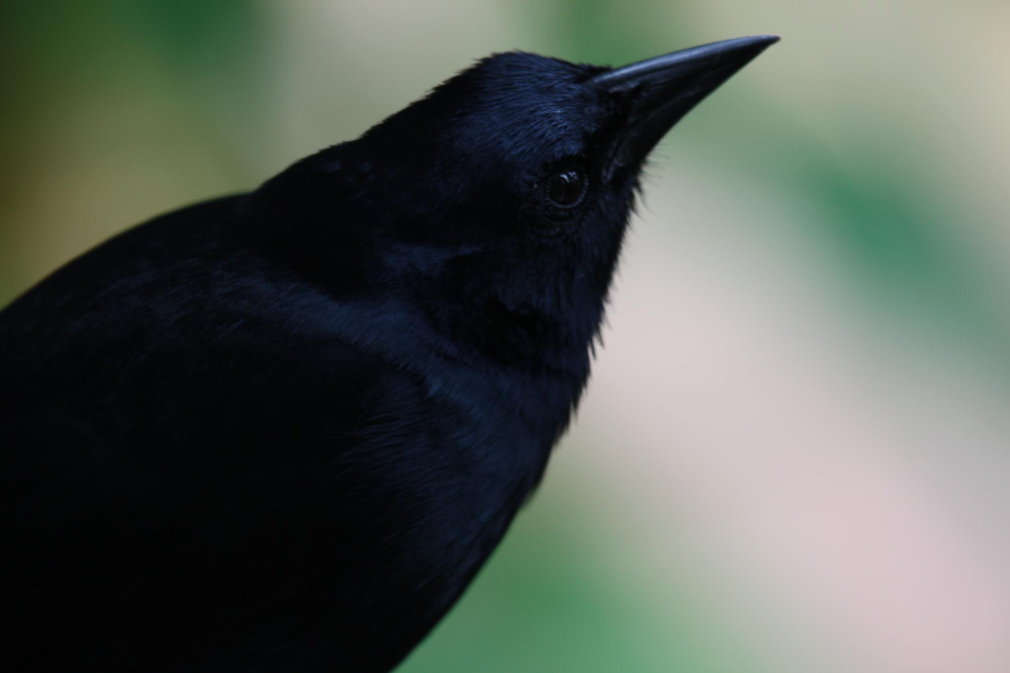 Melodious Blackbird